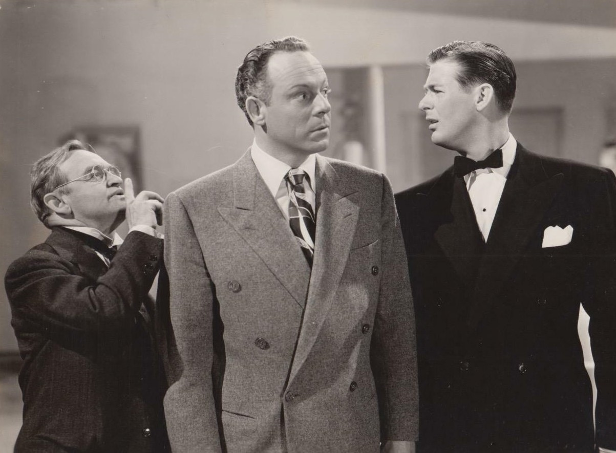 L. to R. : Barry Fitzgerald, Bill Goodwin & Don DeFore in The Stork Club - publicity still (cropped)